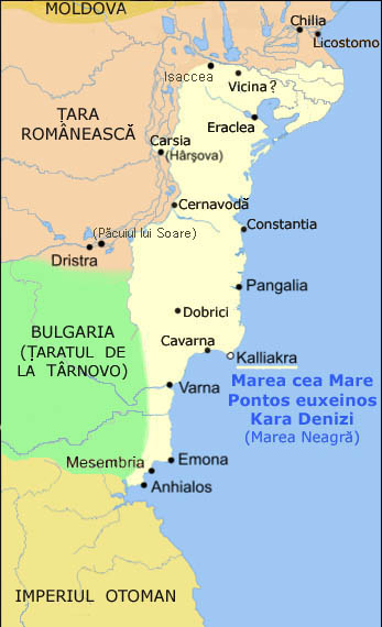 Dobruja 1370